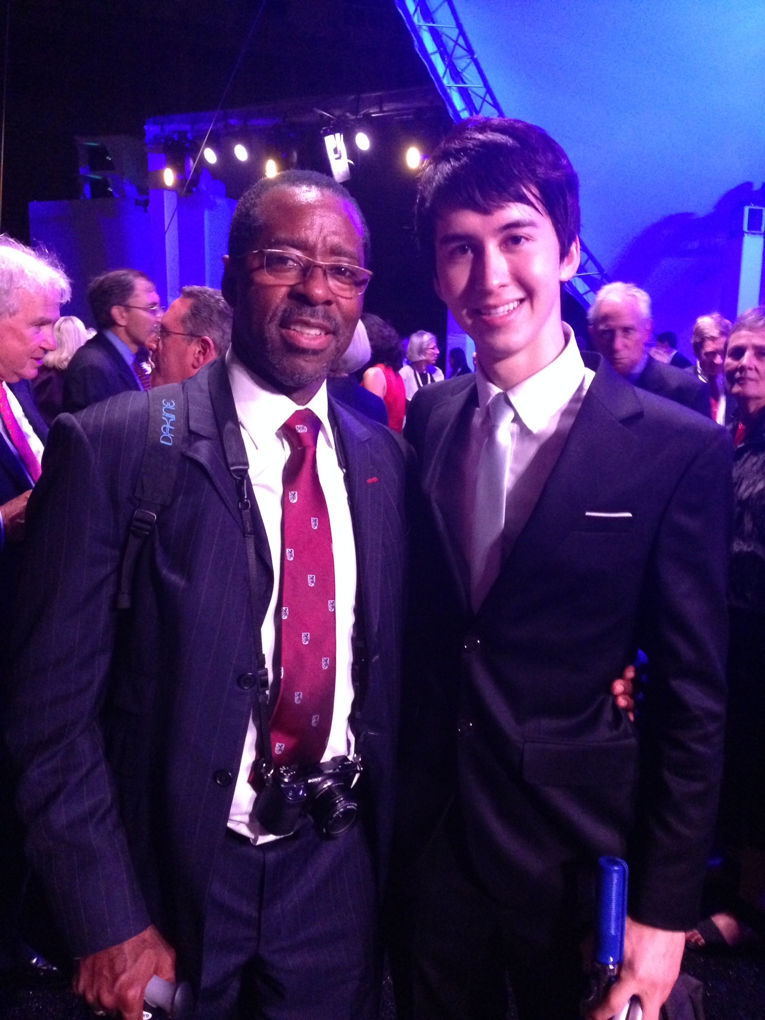 Pianist Charlie Albright and Actor Courtney Vance